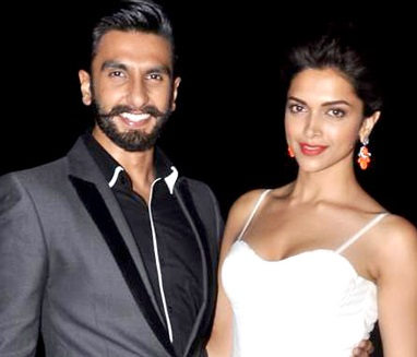 Ranveer Singh and Deepika Padukone at Ram Leela screening